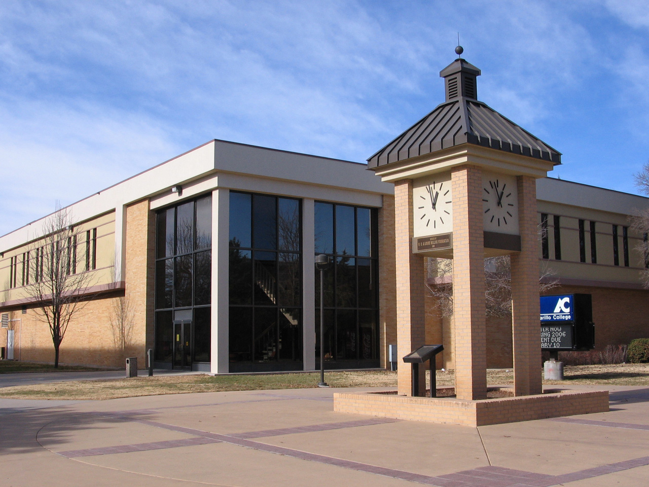 The uploader is the photographer. The place is Amarillo, Texas in the center of their community college.